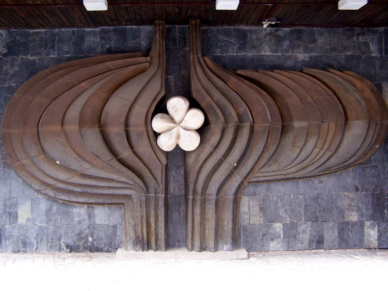 Prior Department store in Olomouc, The Czech Republic